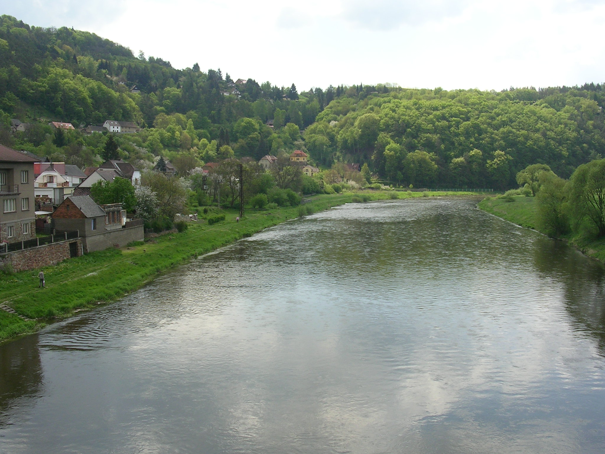 Zbečno, the Czech Republic. Berounka River.